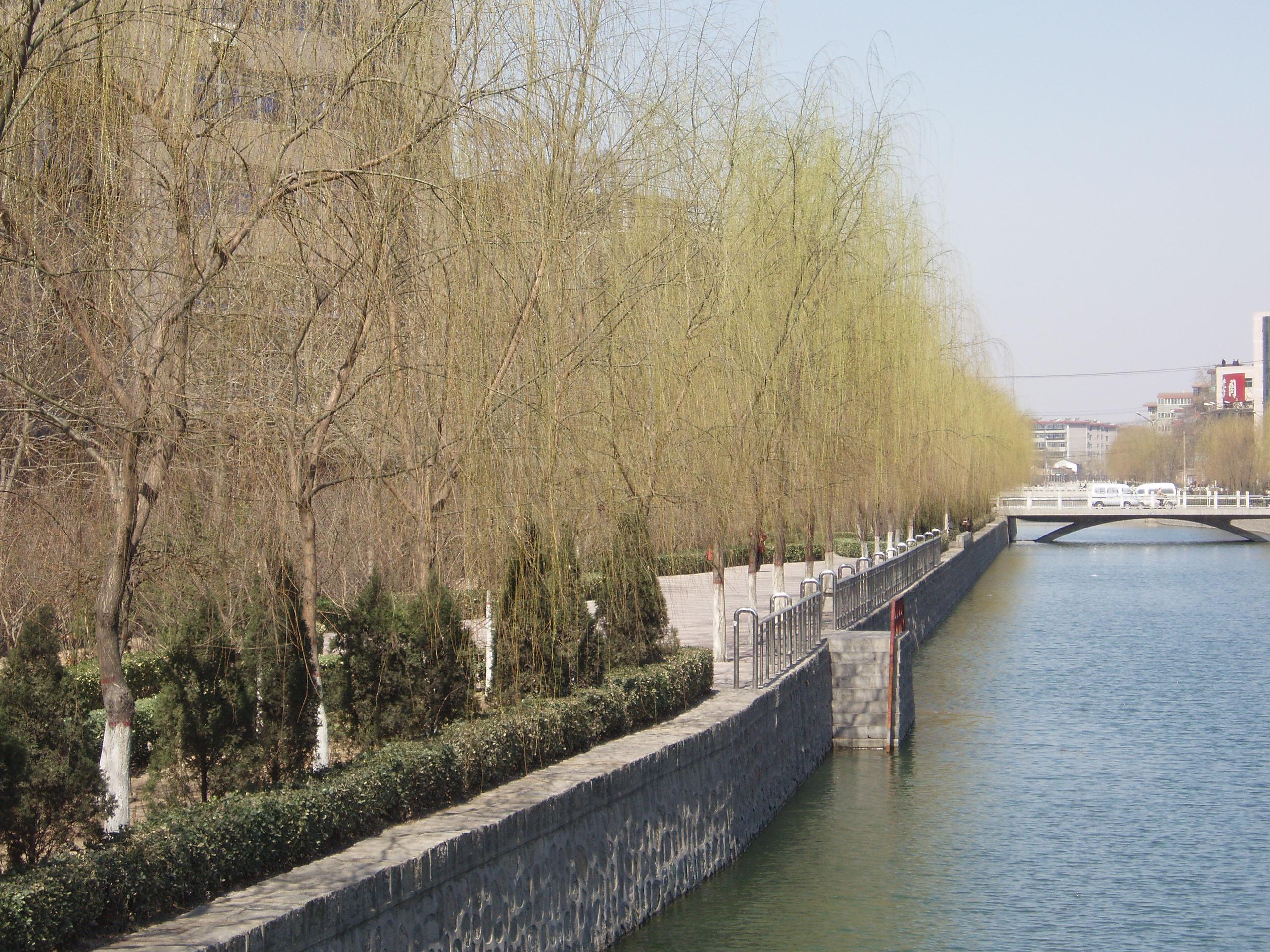 Willows in spring.